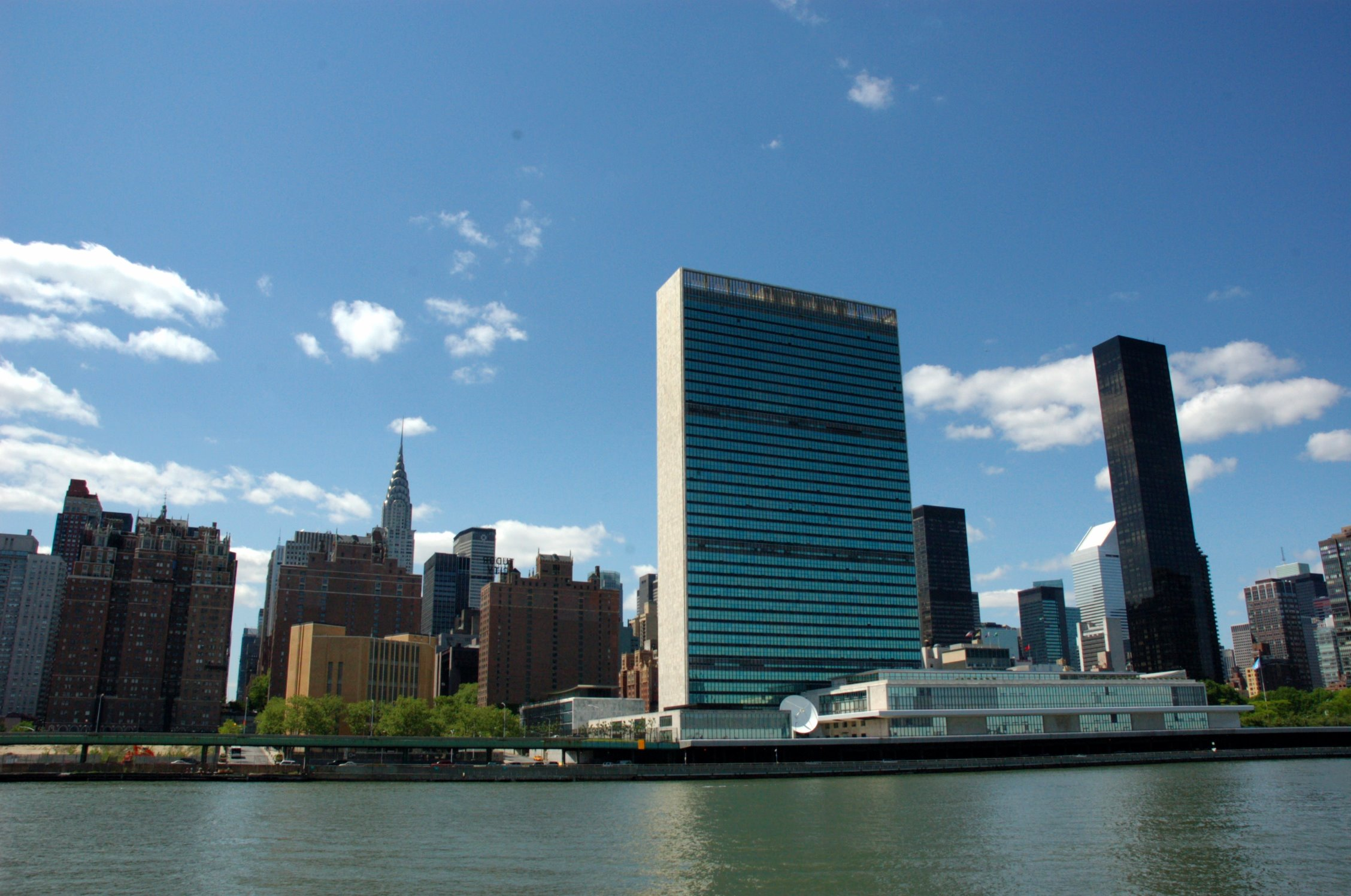 Part of the Midtown Manhattan skyline, showing the Chrysler building in the background and the UN headquarters in the foreground.